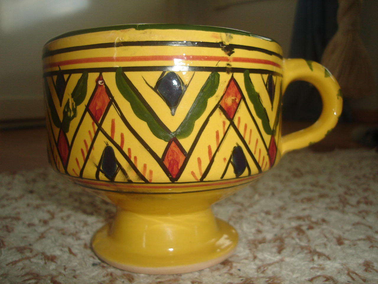 Yellow tea cup